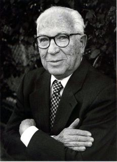 Photograph of Dr. David Neiman in his later years.